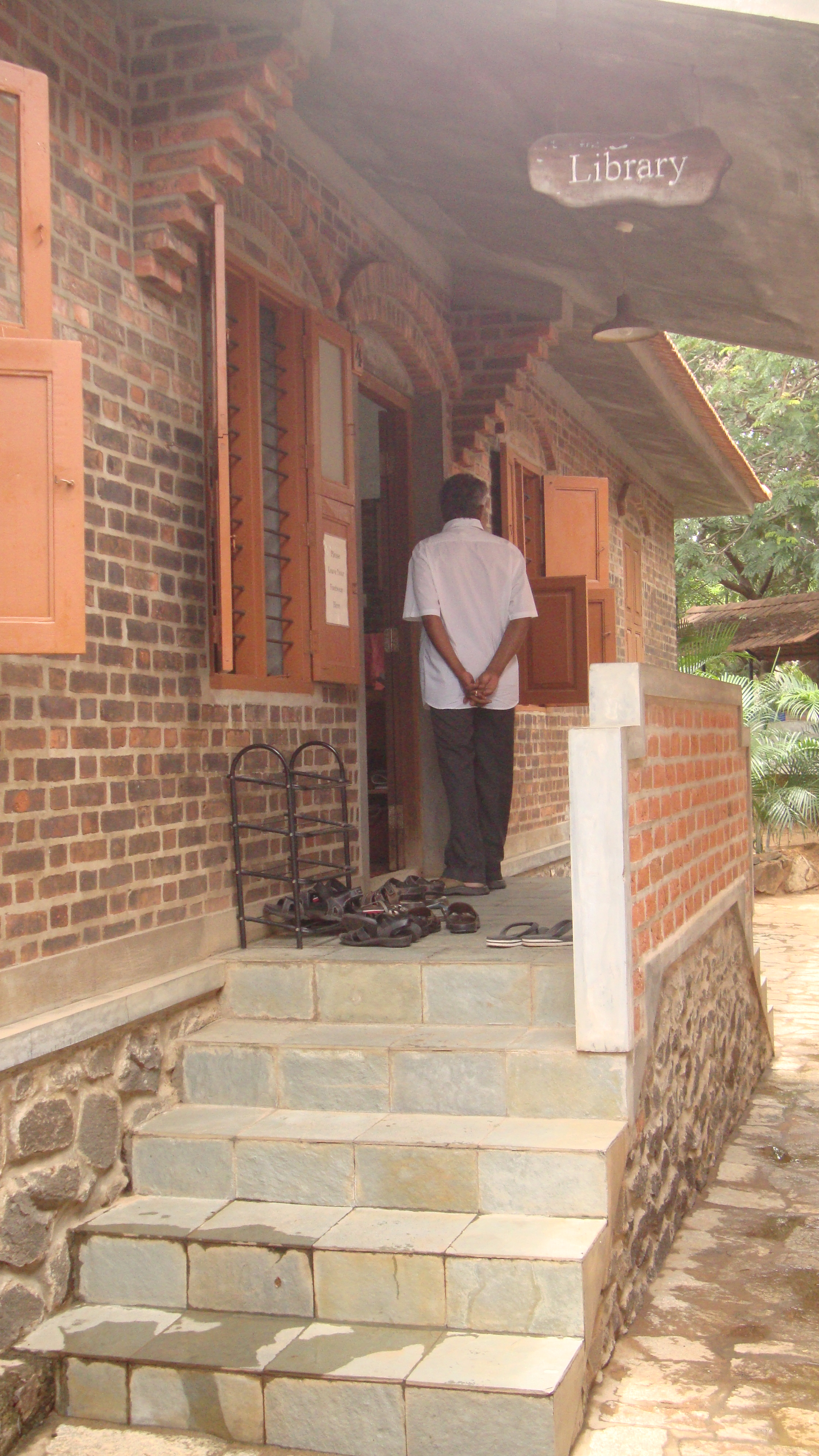 Library Entrance